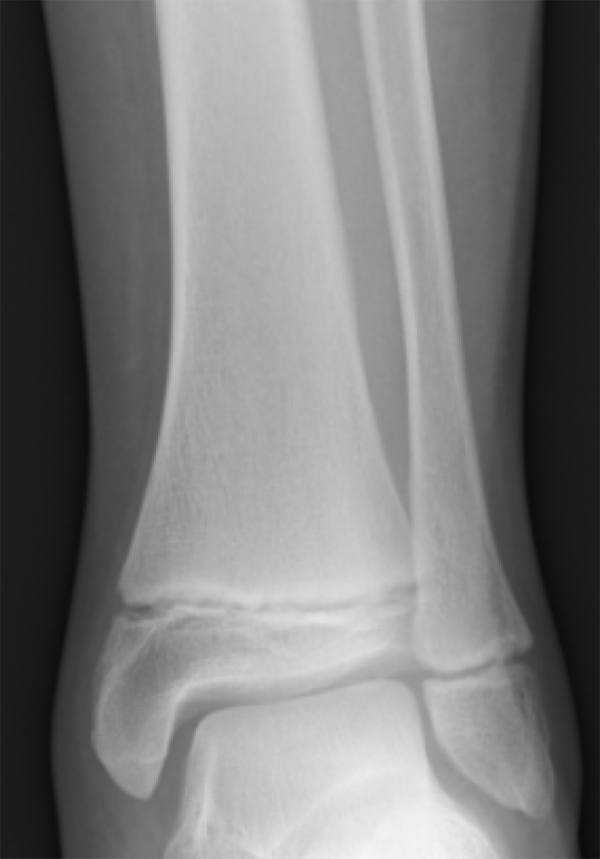 Xray of lower leg of 12 year old child showing growth plates